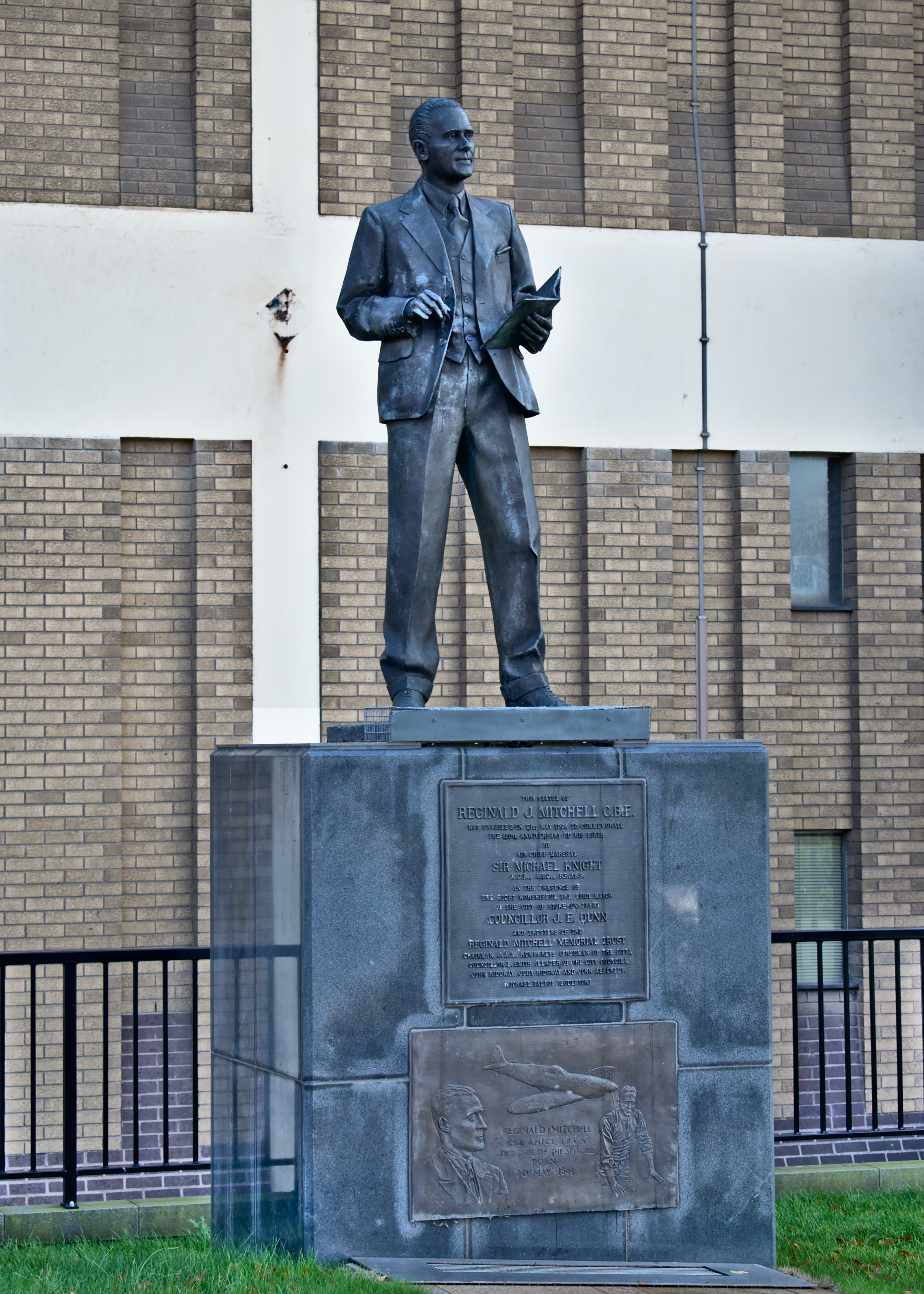 Statue of R. J. Mitchell in Hanley town centre against the Potteries Museum